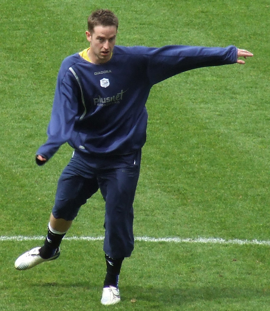 Steve MacLean at Hillsborough Stadium, Sheffield, UK